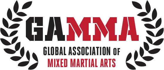 GAMMA Global Association of Mixed Martial Arts